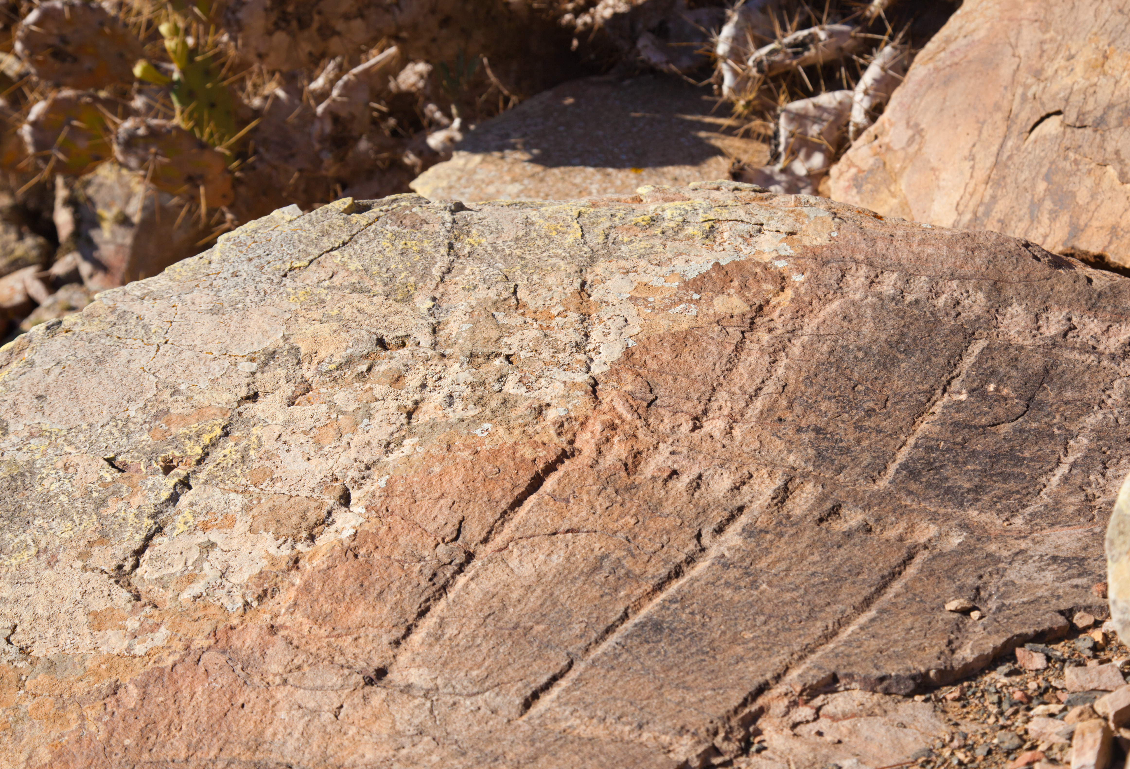 Fuerteventura, mount Tindaya, ancient "graffiti" in crude shape of footprints, "podomorphs" close to the top of the sacred mountain Tindaya This is an image of the Biosphere Reserve or a Geopark: Fuerteventura